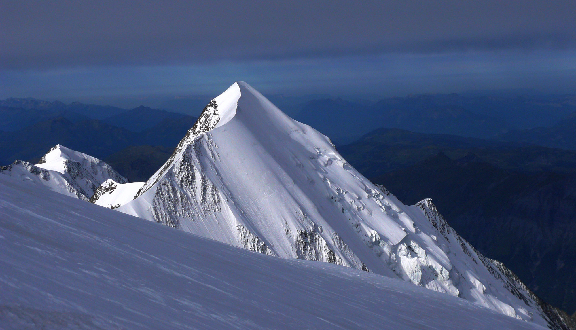 Aiguille_de_Bionnassay